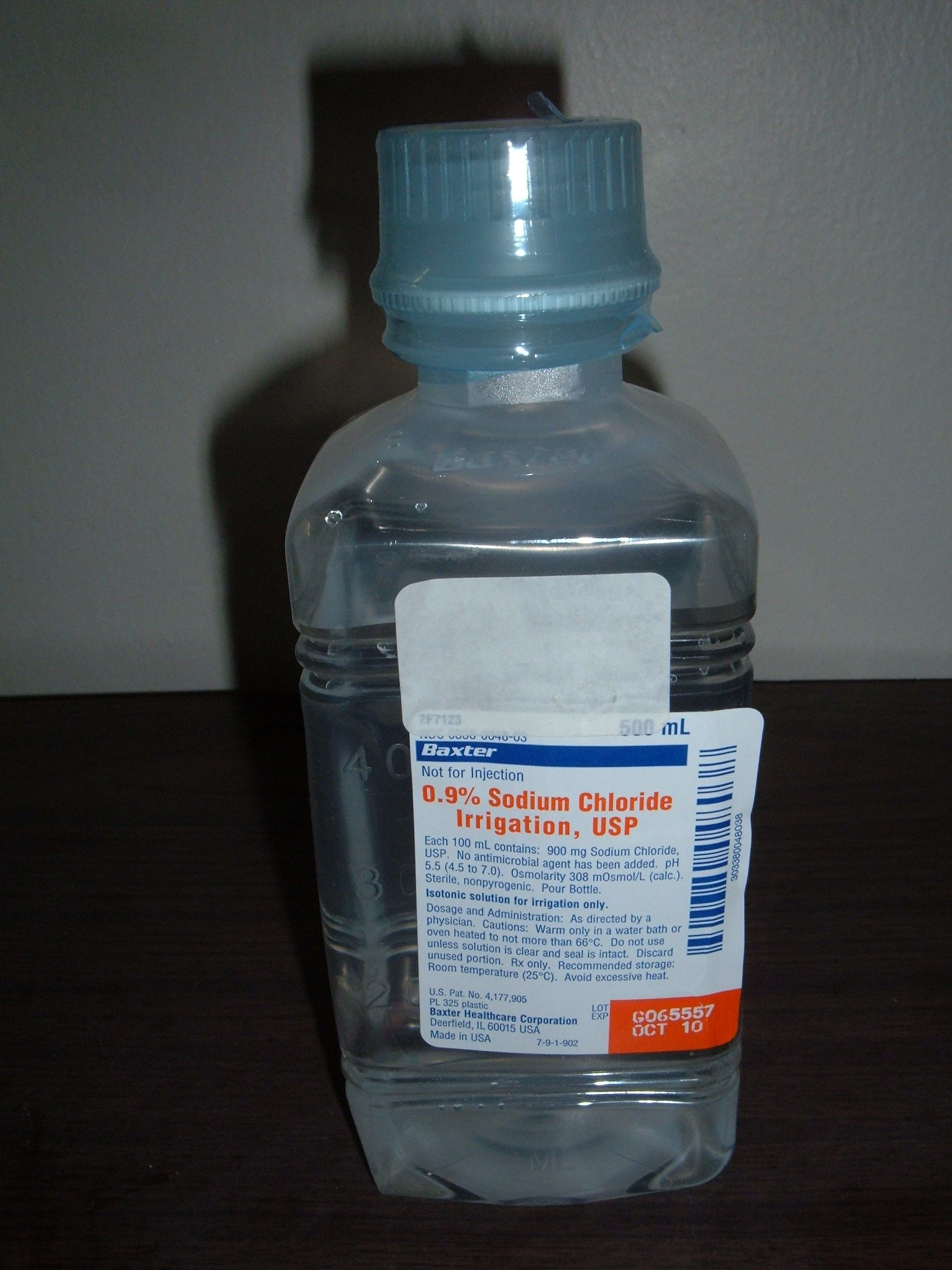 Baxter 0.9% sodium chloride irrigation, USP, for cleansing tissues, body cavities, wounds, and bladder irrigation.